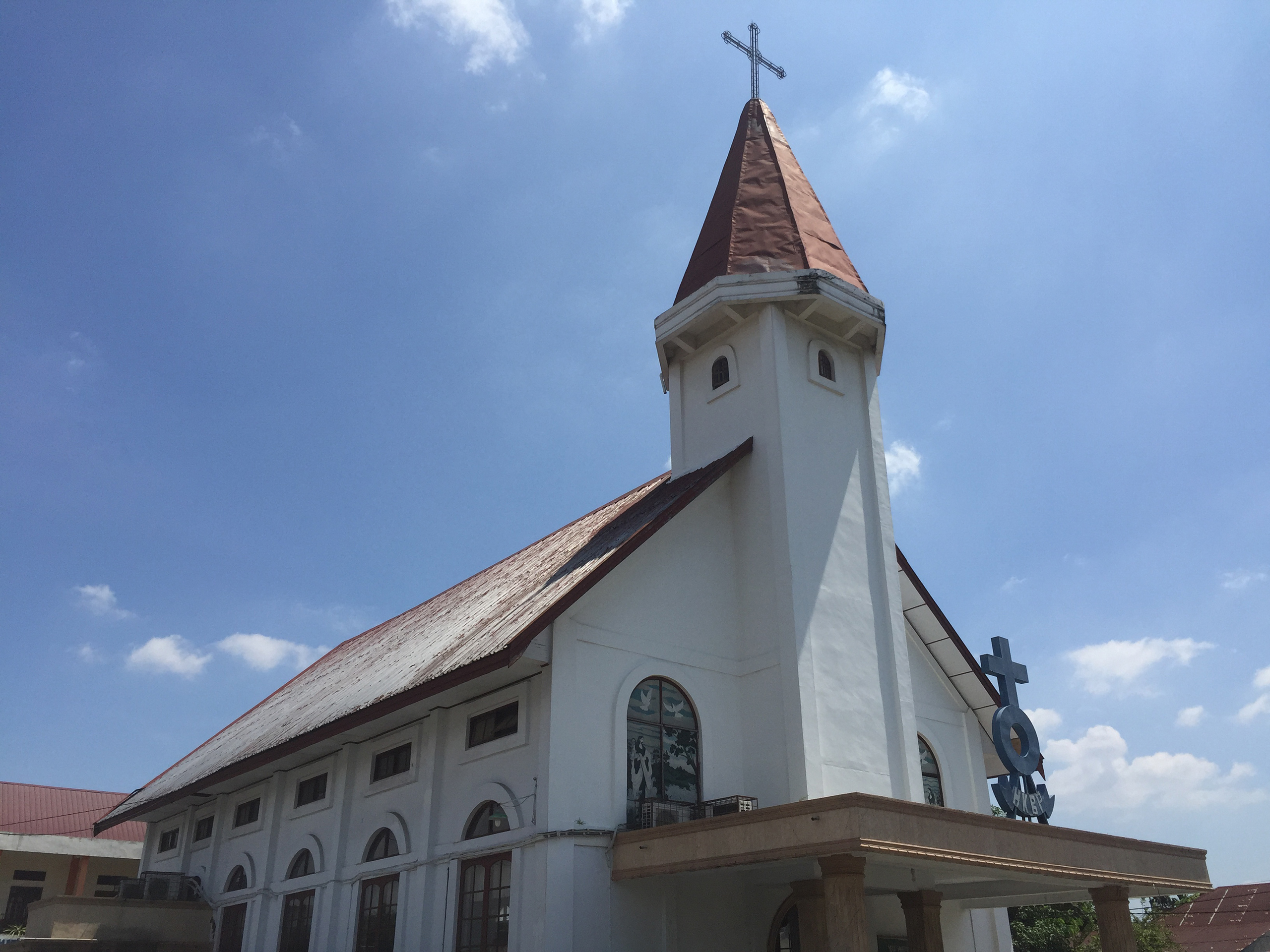 HKBP Gedung Johor, church in Pangkalan Mahsyur, Medan Johor, Medan